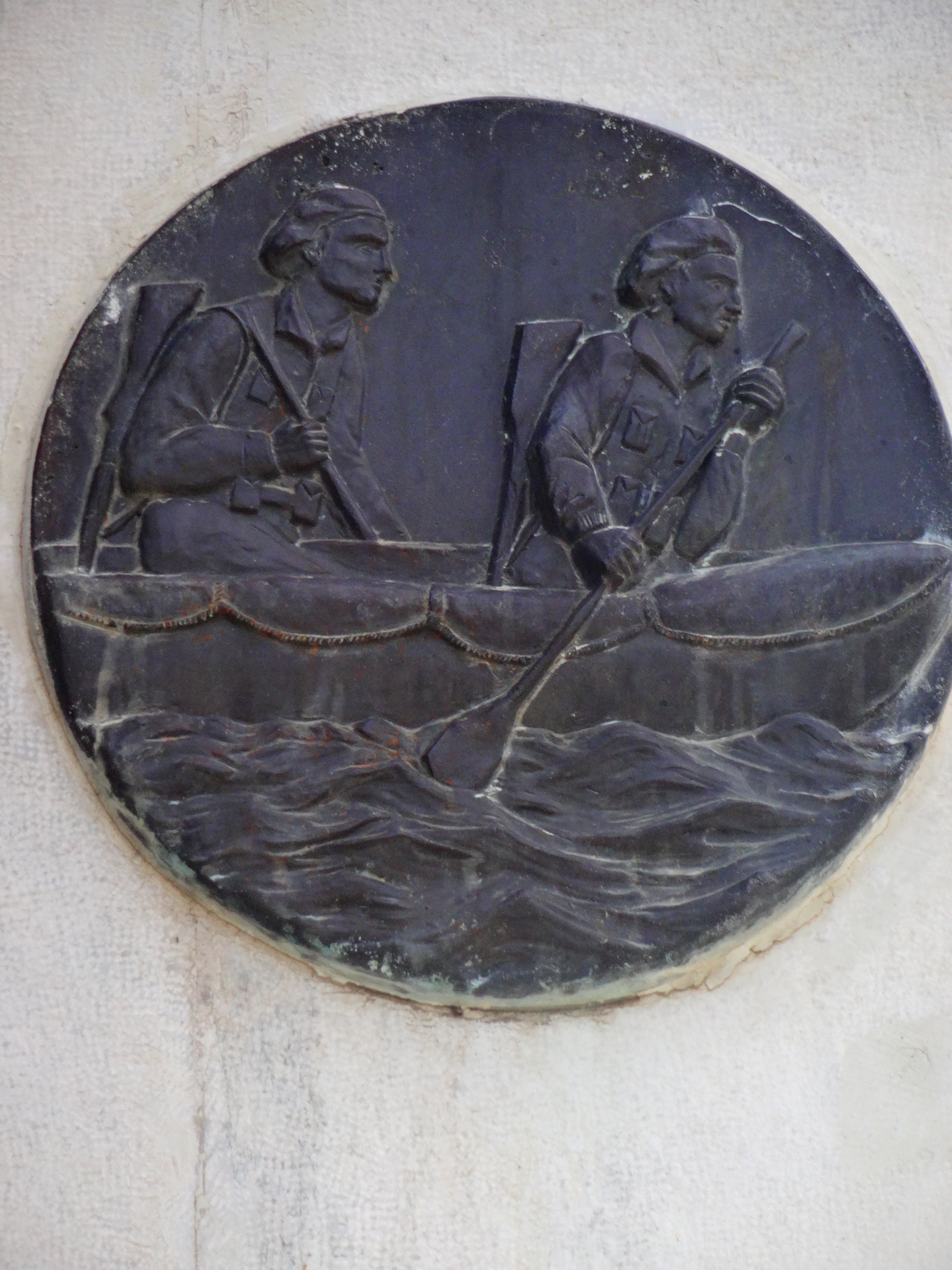 Fragment on the Monument of Sacred Band (World War II) in Athens, Greece